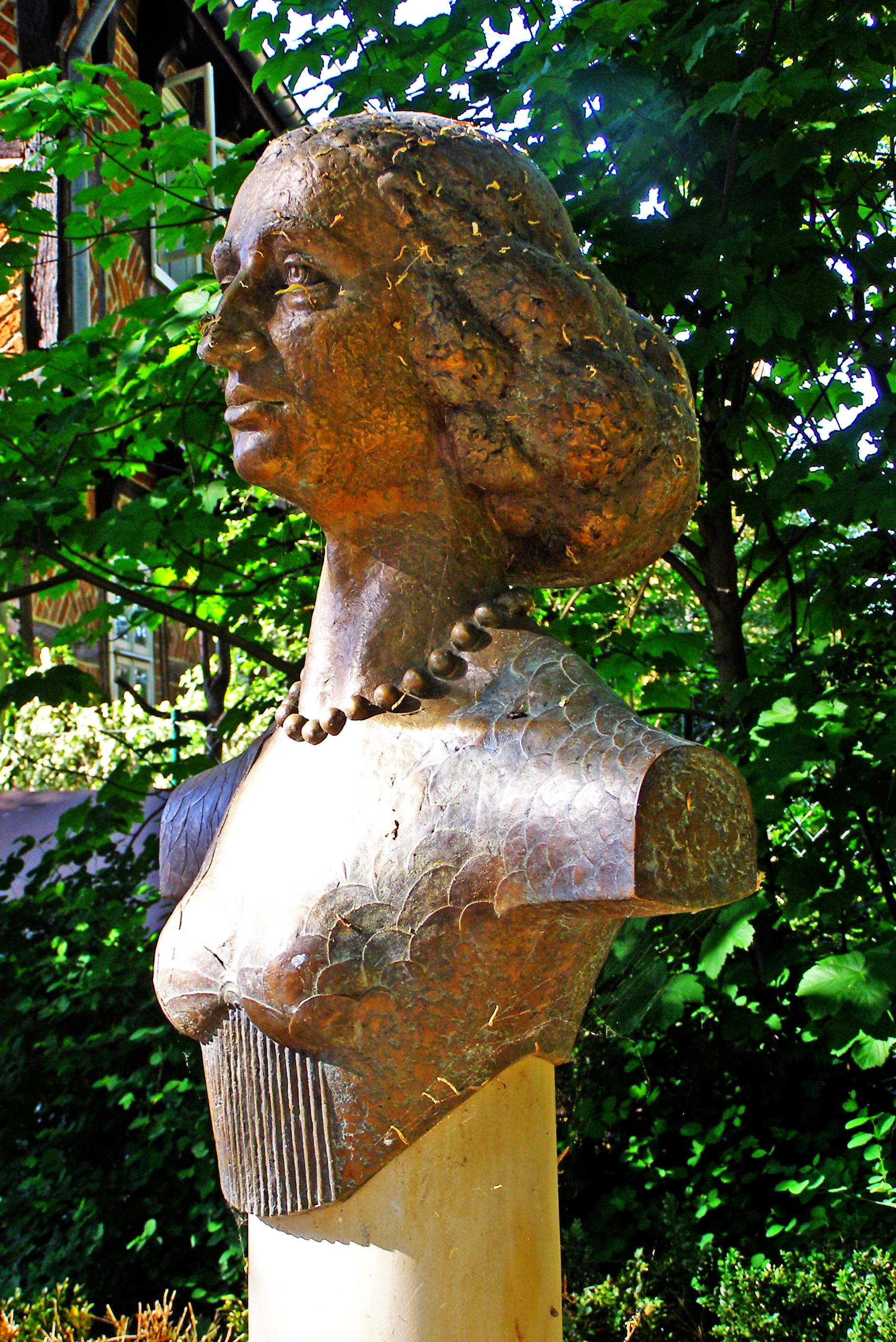 Bust of Elisabeth of Bohemia, Princess Palatine in town of Herford, District of Herford, North Rhine-Westphalia, Germany.